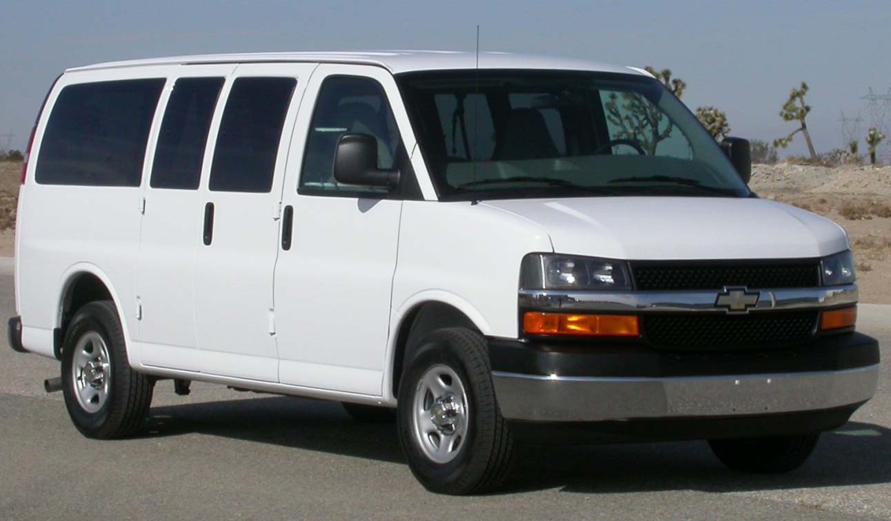 2005 Chevrolet Express photographed in USA.